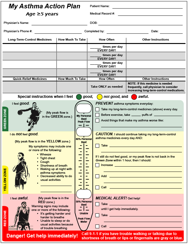 The patient's normal PEFR value can be used to construct a personalized asthma action plan.